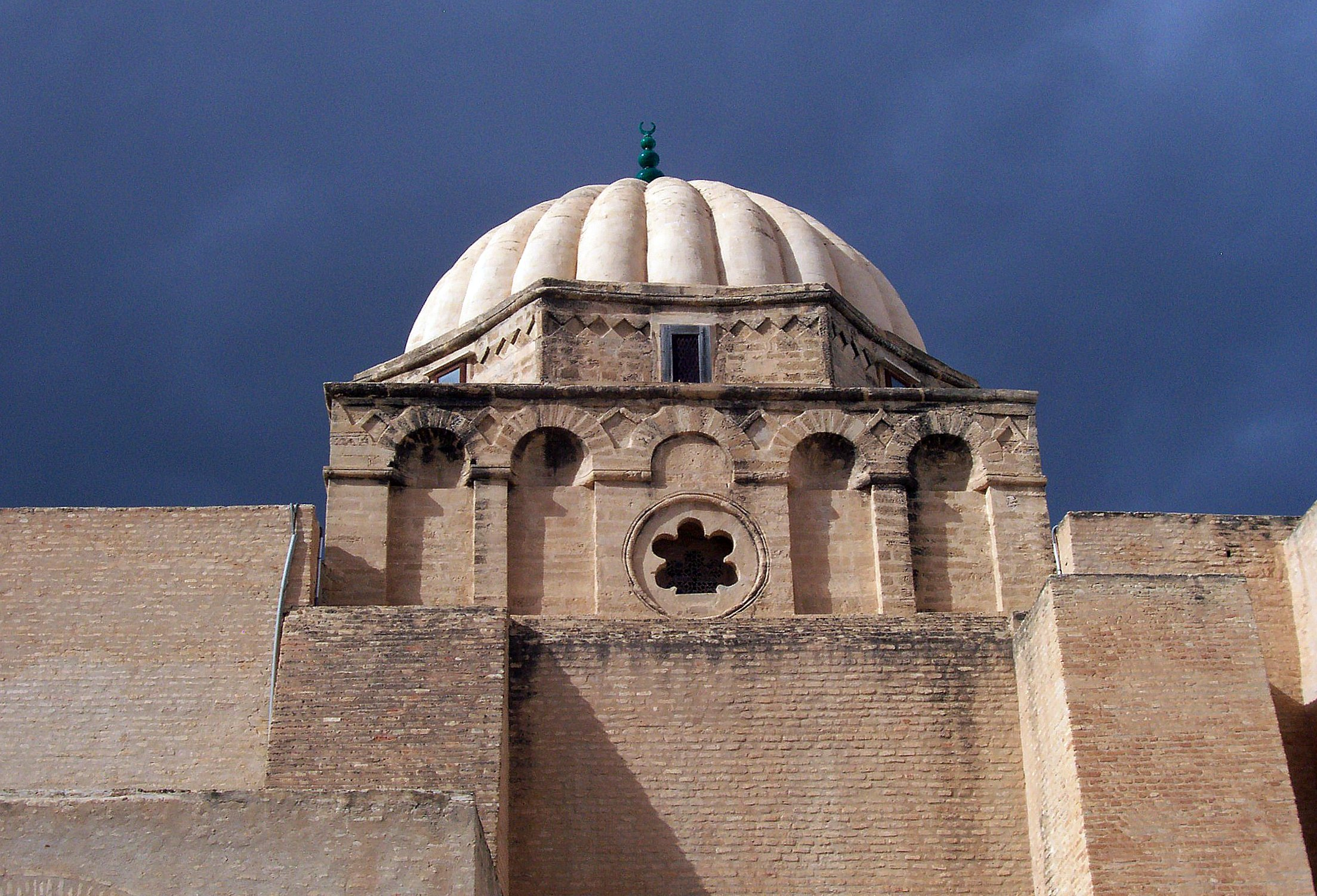 Cupola surmounting the mihrab of the Great Mosque of Kairouan